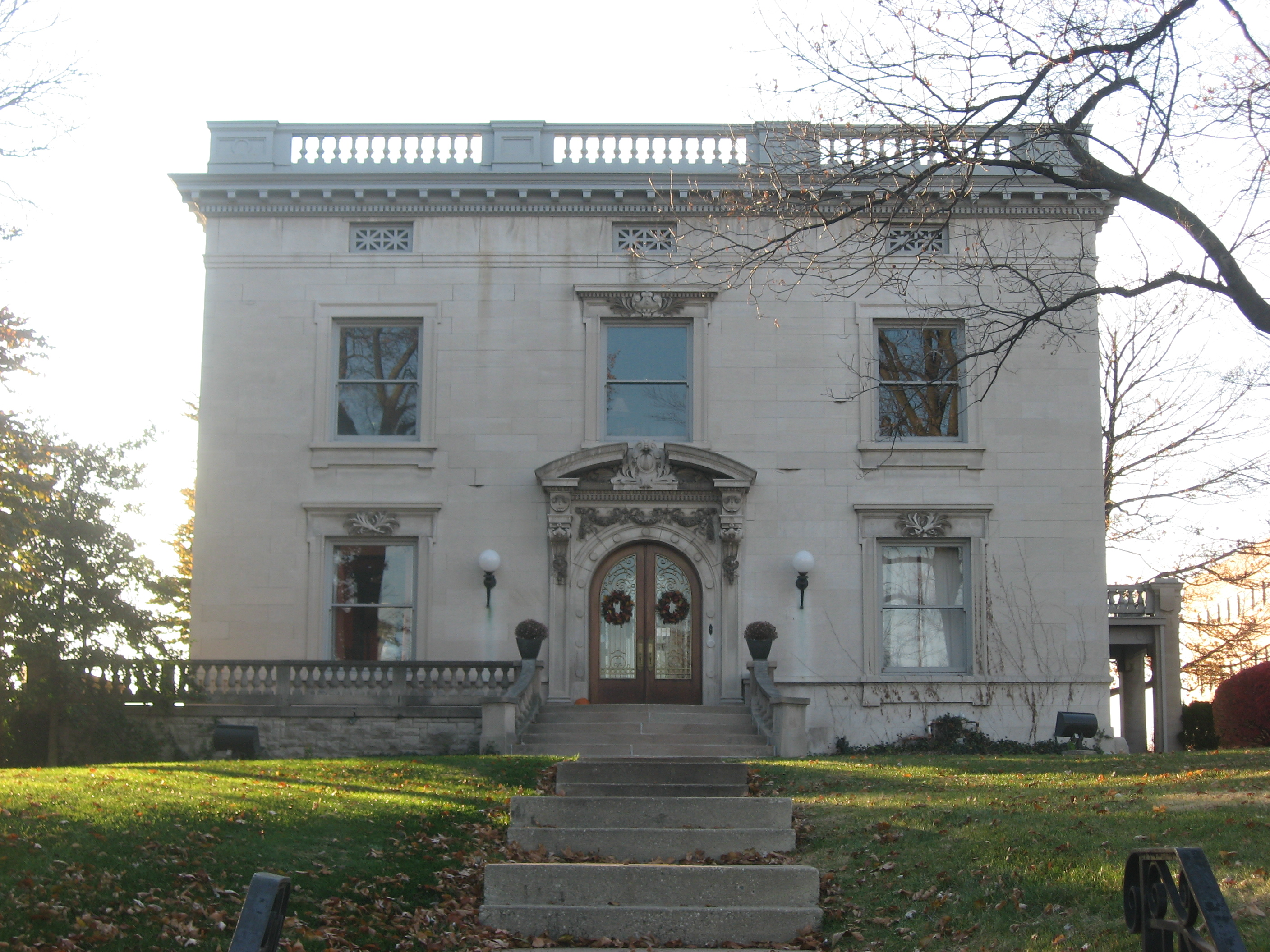 Front of the Louis Levey Mansion, located at 2902 N. Meridian Street in Indianapolis, Indiana, United States. Built in 1905, it is listed on the National Register of Historic Places.